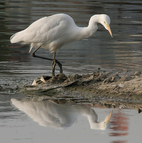 Intermediate or Median or Yellow-billed, Egret Ardea intermedia near Hodal, Faridabad, Haryana, India.